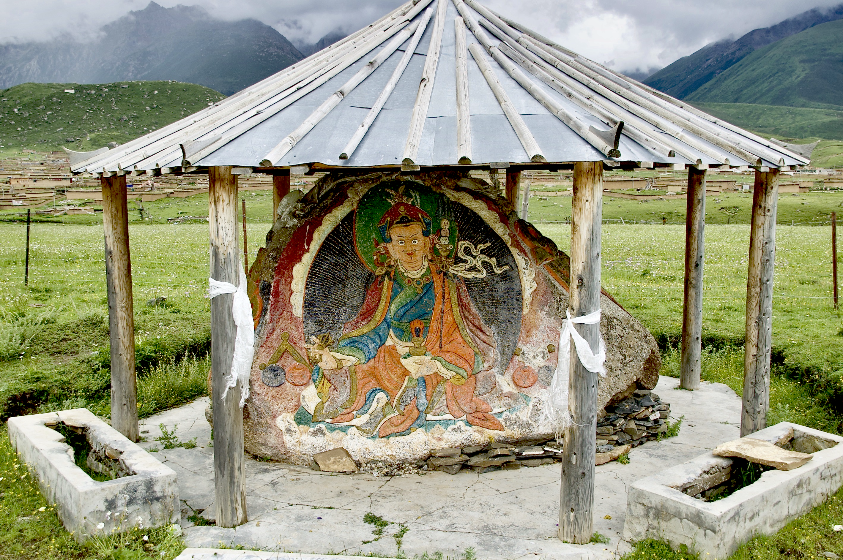 Image of Guru Rinpoche welcoming pilgrims and visitors on the road to Dzogchen Monastery, Sichuan, 2009